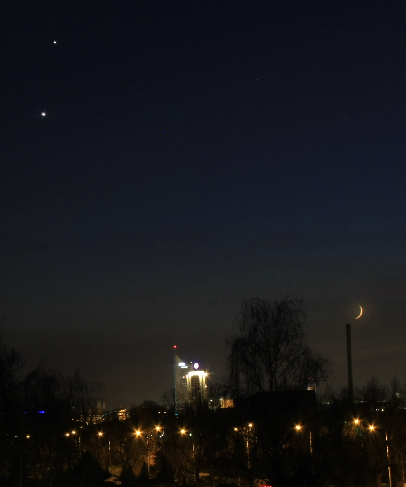 A rare conjunction of the Moon, Venus (brightest spot) and Jupiter above the city-center of Leipzig/Germany.